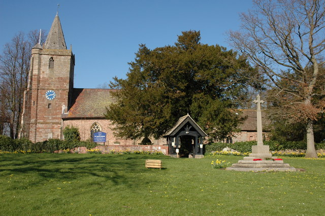 Dymock church and War Memorial Dymock church is dedicated to St Mary. Before the First World War the village of Dymock and surrounding area was a popular location to live for a number of poets.